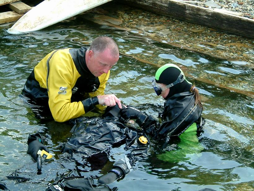 Beaching a casualty and providing in-water artificial respiration during a rescue. Photo by Mark Murphy at Wraysbury, UK